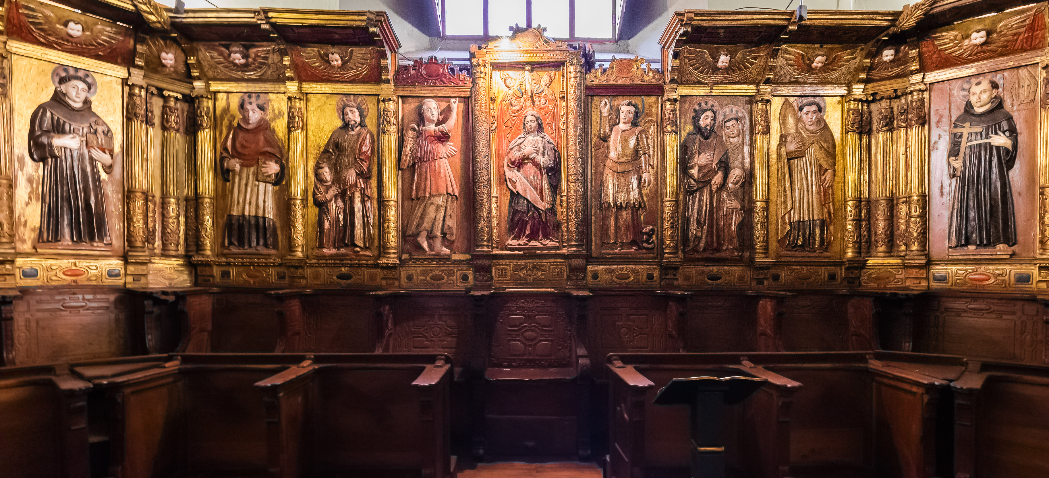 Church of San Francisco, Quito, Ecuador